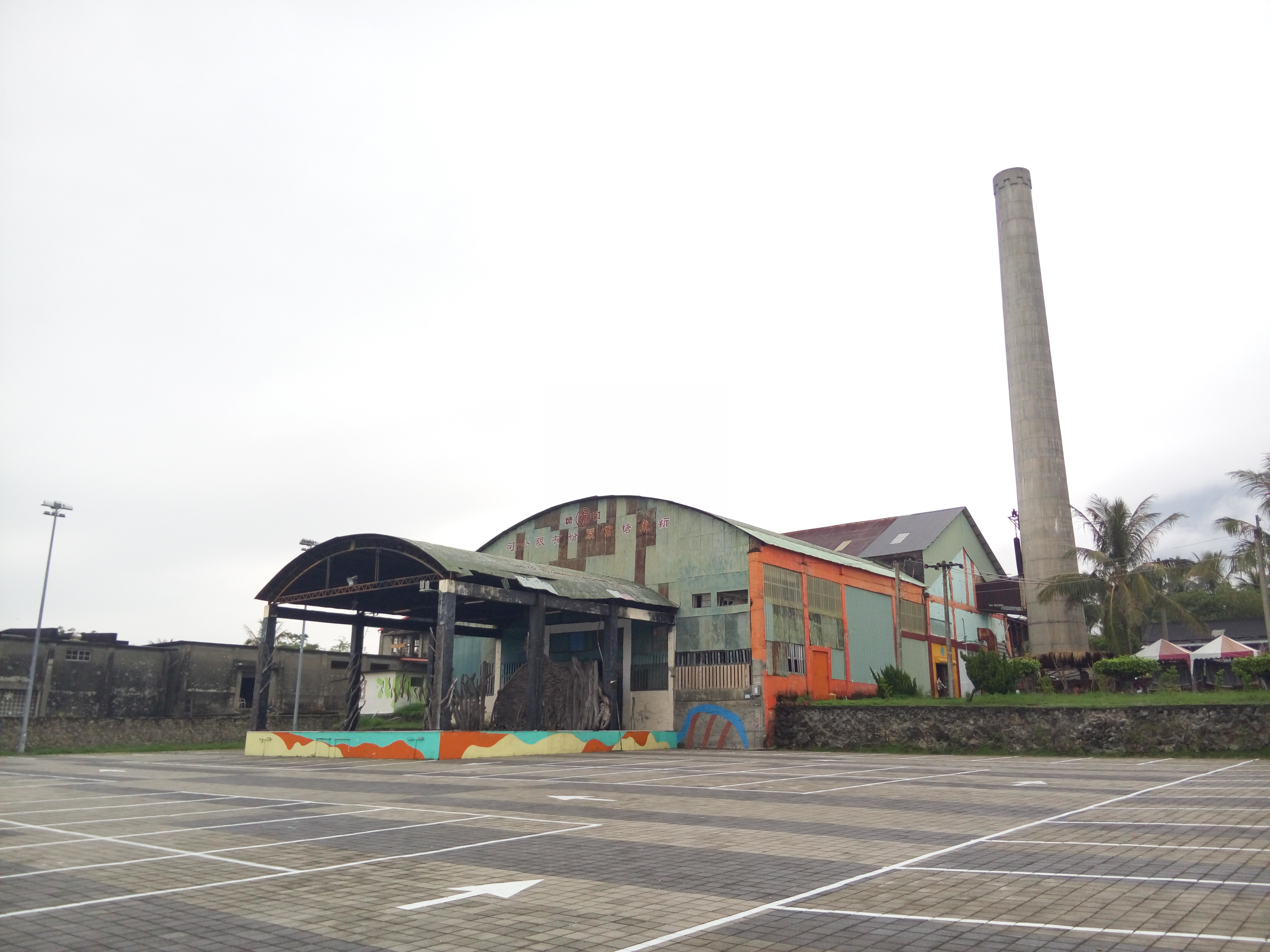 Taiwan Taitung County Xing-Tung Sugar Factory